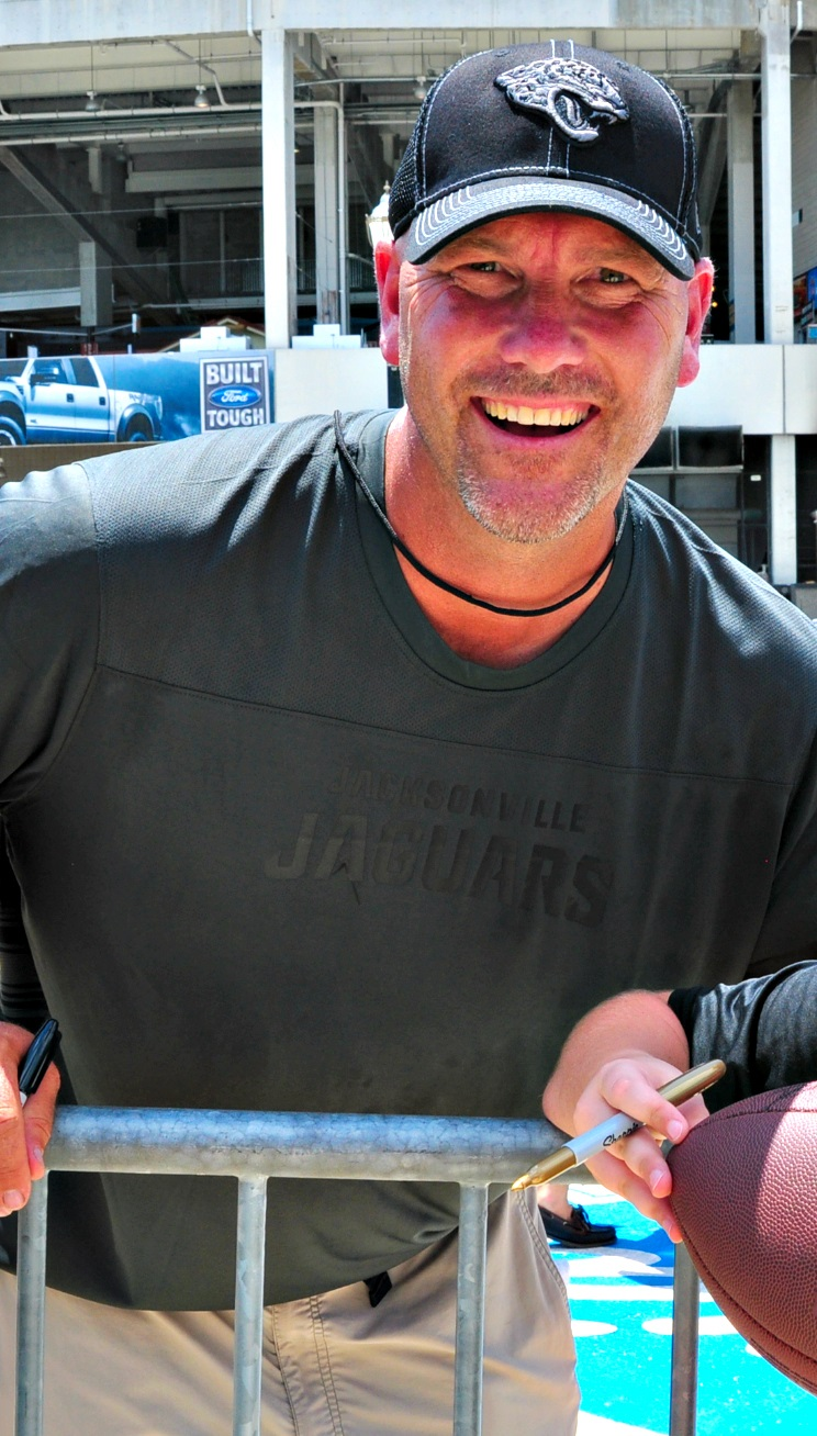 Jaguars coach Gus Bradley at 2014 training camp.